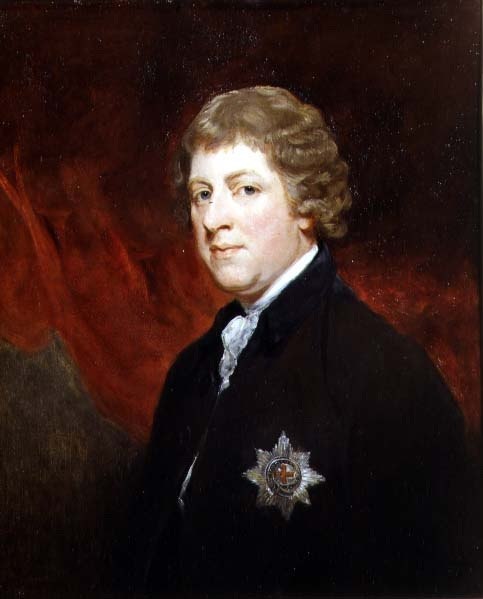 Portrait of Granville Leveson-Gower, 1st Marquess of Stafford (1721-1803)